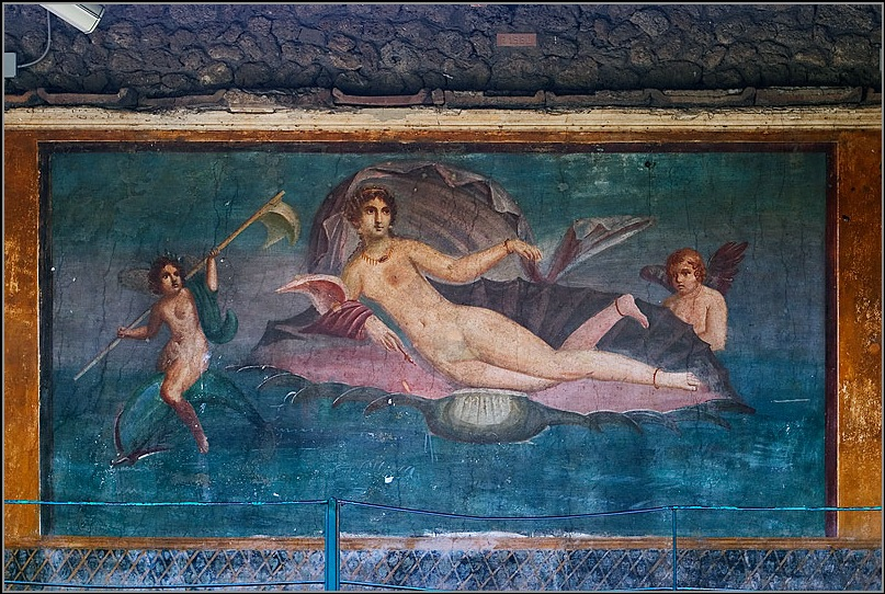 Fresco from Pompei, House of Venus, 1st century AD. Dug out in 1960. It is supposed that this fresco could be the Roman copy of famous portret of Campaspe, mistress of Alexander the Great